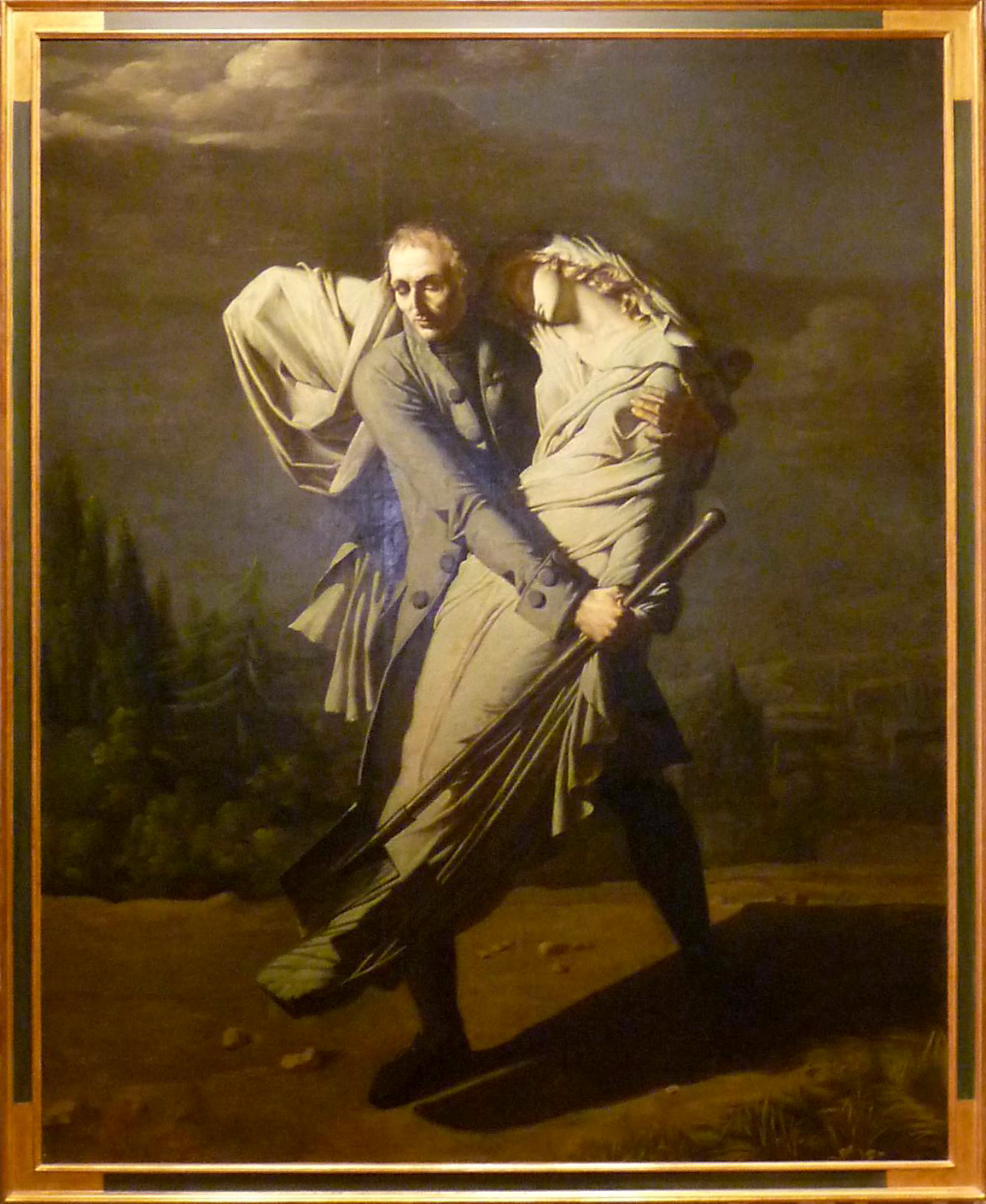 city museum of Angoulême, France